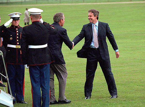 British Prime Minister Tony Blair welcomes U.S. President George W. Bush to Chequers in Halton, England, July 19, 2001. Like Camp David, which Mr. Blair visited in February, Chequers is a private residence for the Prime Minister where the two leaders can talk privately. "I think it is yet another example of the strength of the relationship between our two countries. It is a very strong relationship, a very special one," said Mr. Blair during a press conference where he welcomed President Bush.